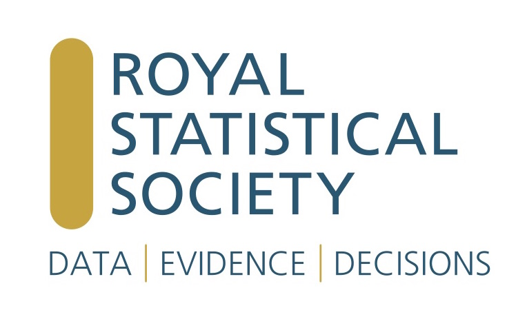 Royal Statistical Society logo